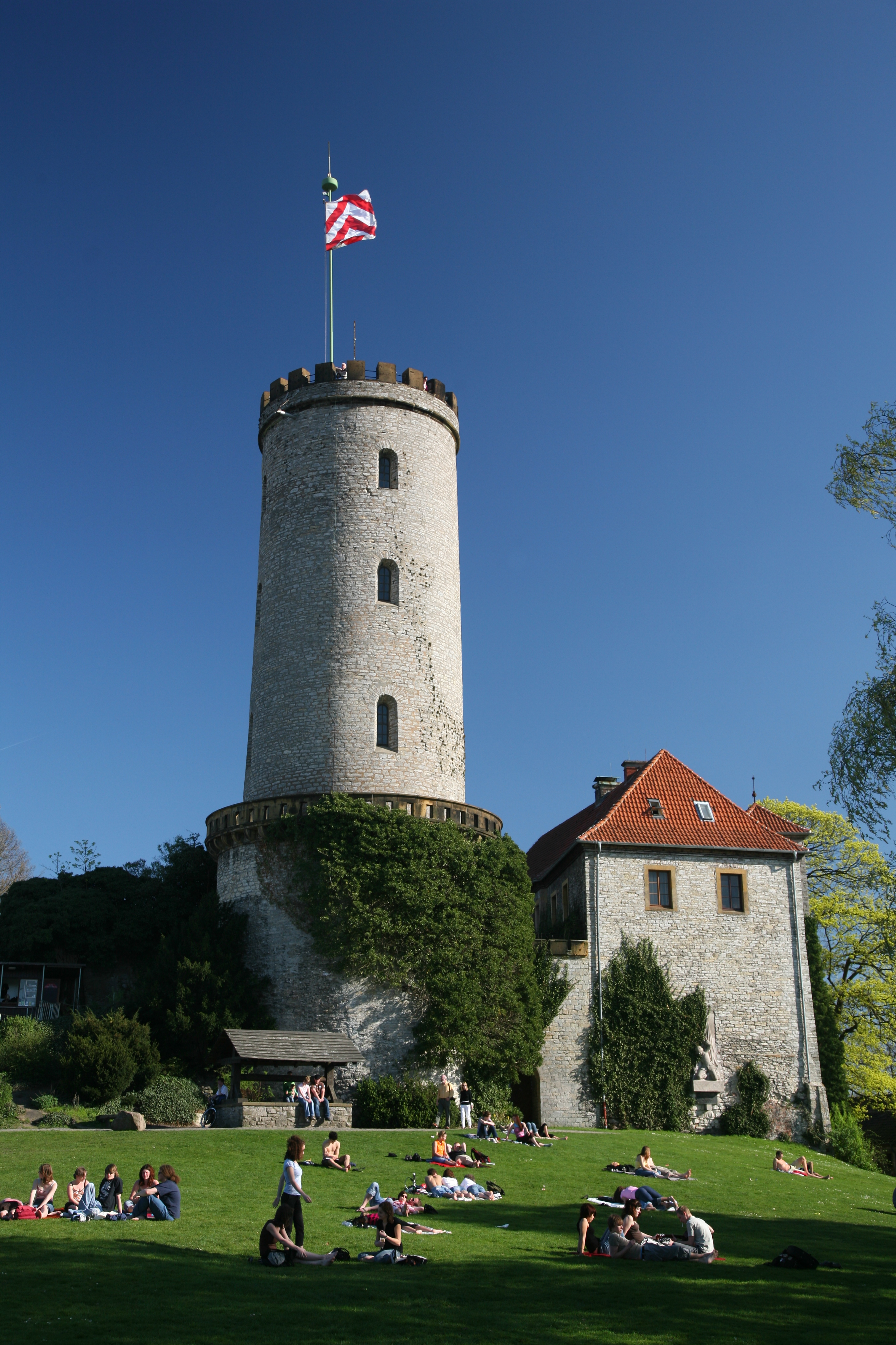 Castle Sparrenburg in Bielefeld, Germany